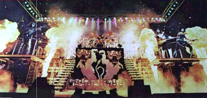 Trade ad for Kiss's album "Alive II".To better adapt it to his respective Wikipedia article, the ad was cropped and cleaned in a graphics editing program. The original can be viewed at the source below.